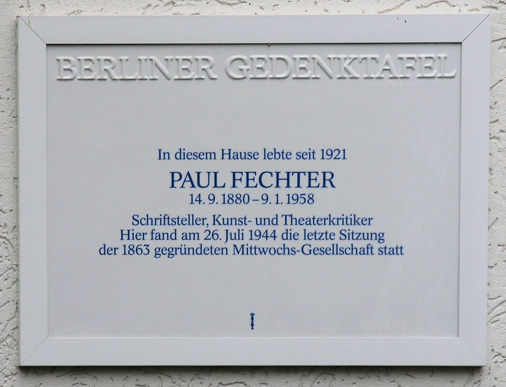 Berlin memorial plaque, Paul Fechter, Franziusweg 48, Berlin-Lichtenrade, Germany Koordinate:52°23′38″N 13°23′18″E / 52.39389°N 13.38833°E